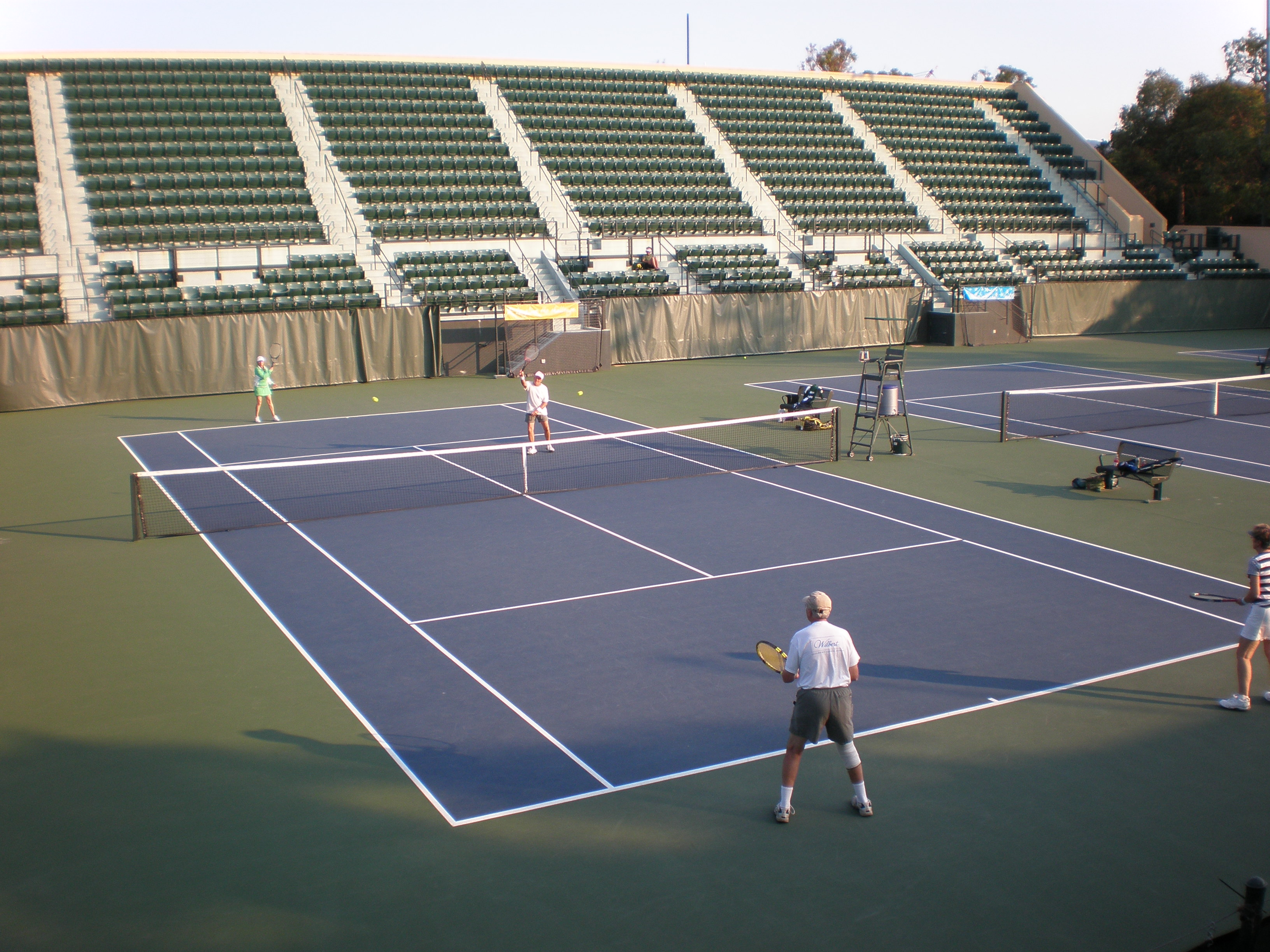 Taube Family Tennis Stadium in the Taube Tennis Center on the Stanford University campus.